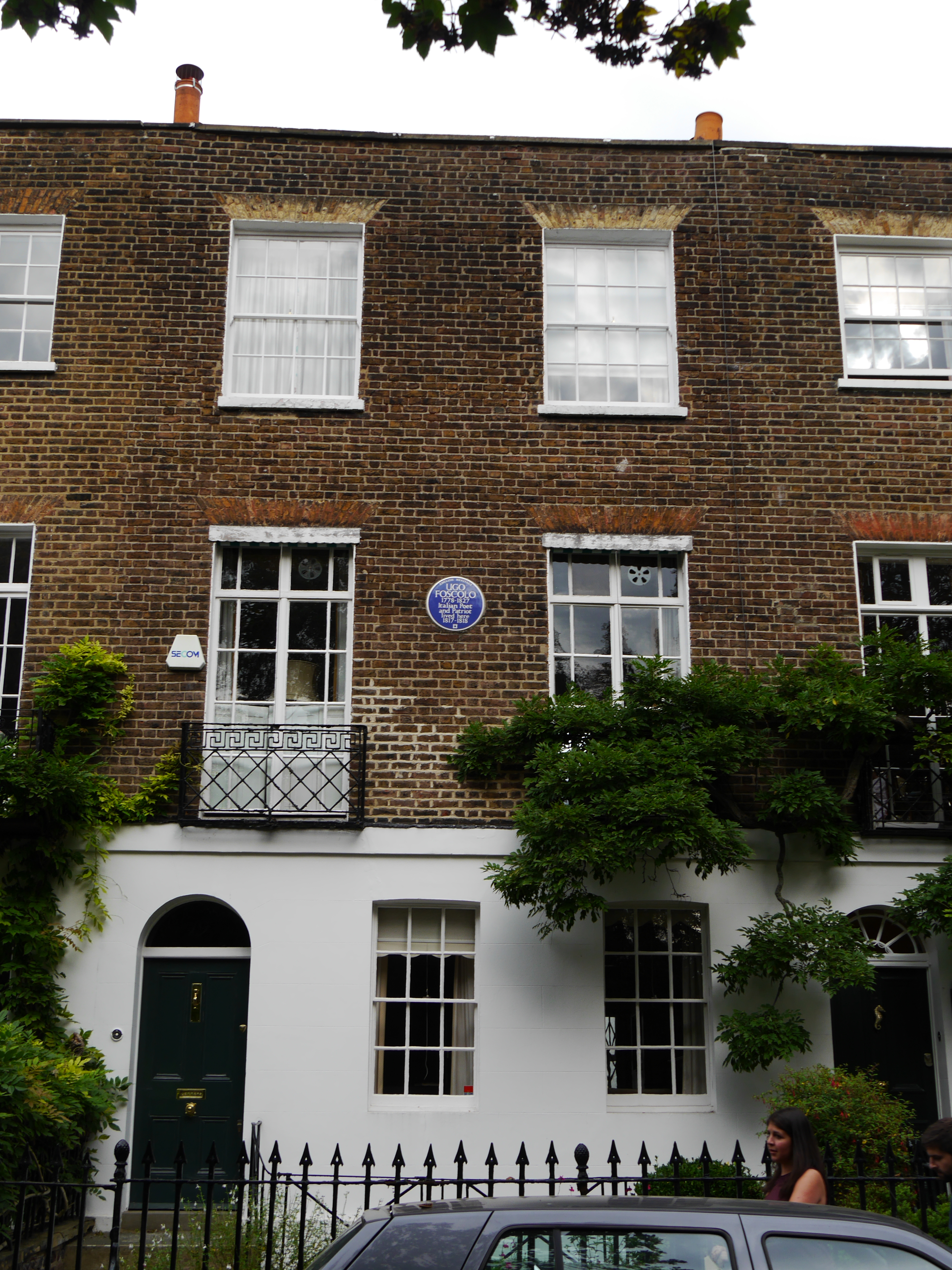 Edwardes Square, London W8